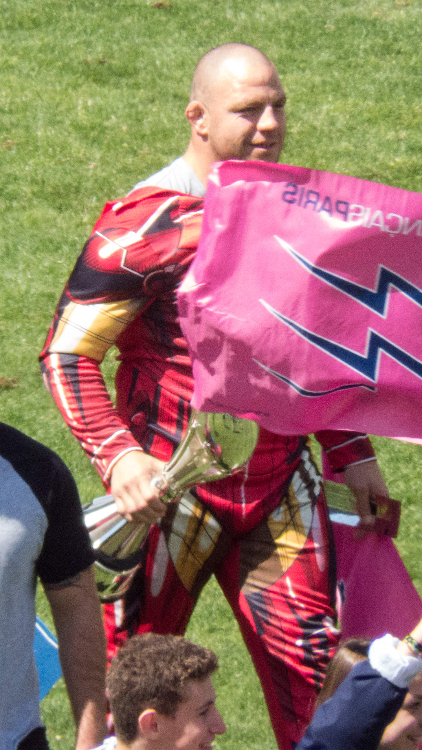 Paris Sevens 2017 — 14 May 2017, stade Jean-Bouin. Match between: South Africa — New Zealand